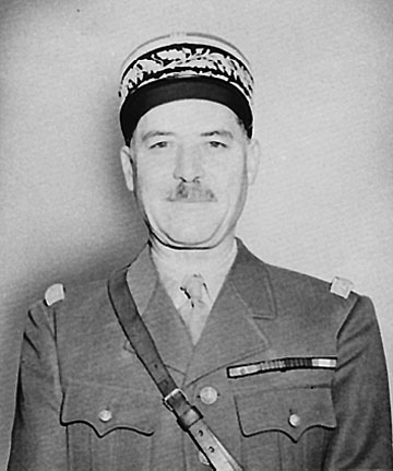 GEN. ALPHONSE JUIN. Photograph taken when General Juin was Commander in Chief of all French Army Forces in North Africa.